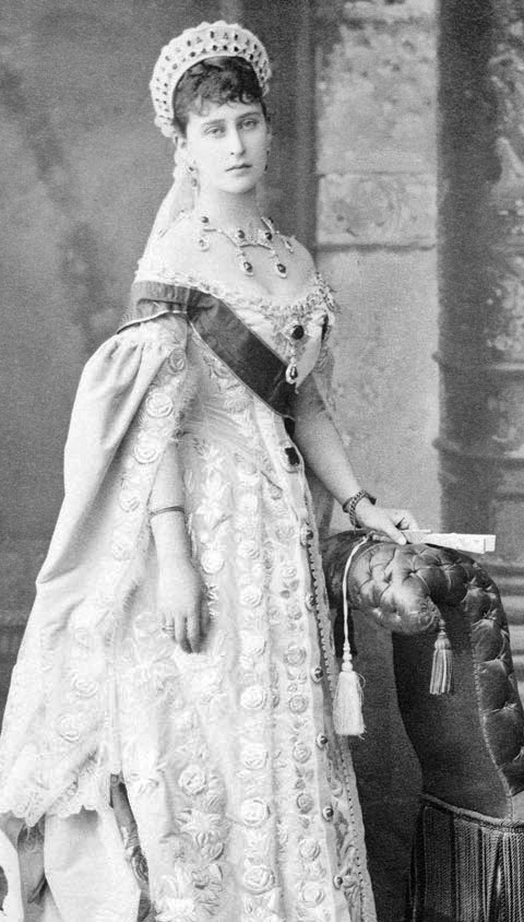 Portrait of Elizaveta Fedorovna of Russia